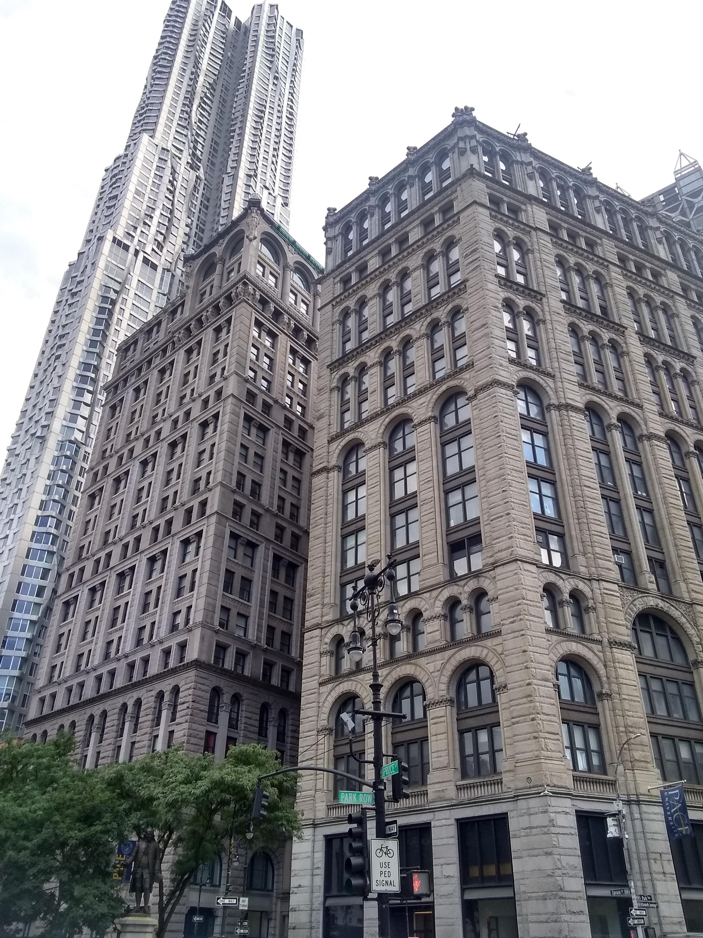 Buildings in the Civic Center of Manhattan, New York City, in August 2020. Left to right: 8 Spruce Street, 150 Nassau Street, 41 Park Row